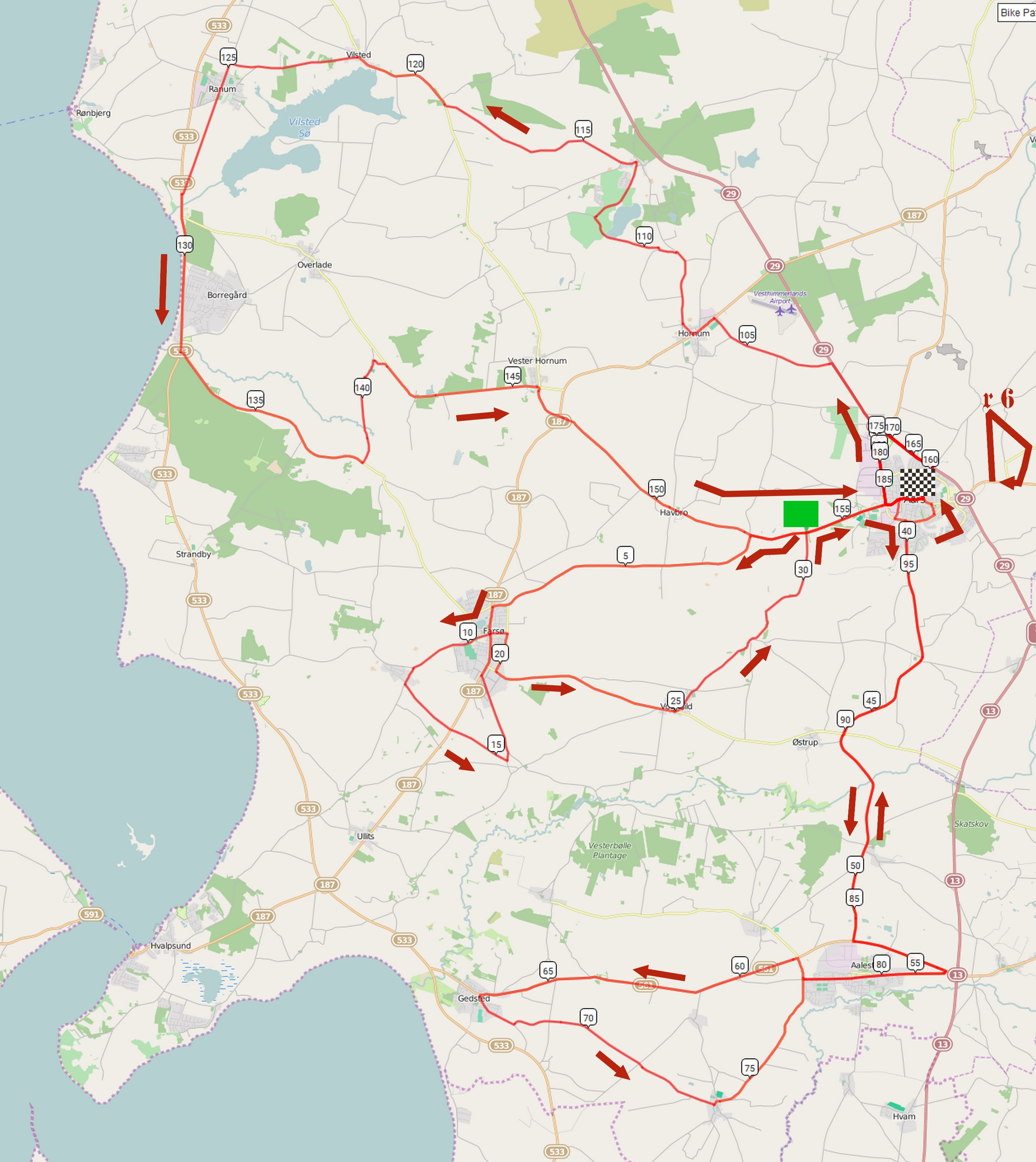 Parcours du Himmerland Rundt 2015. This map may be incomplete, and may contain errors. Don't rely solely on it for navigation.